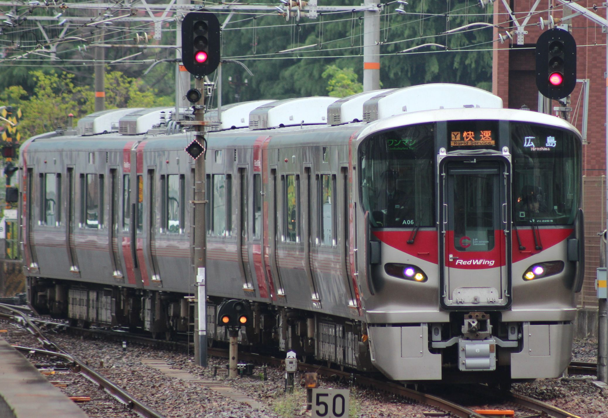 JR West 227 series EMU set A06 approaching Kure Station on a rapid service to Hiroshima